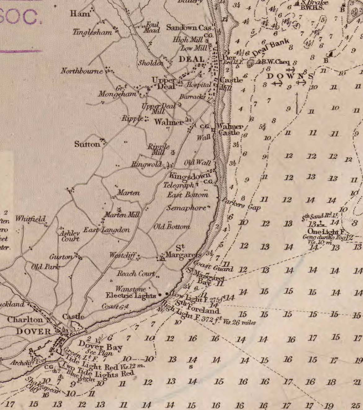 Chart showing position of The Downs off the coast of kent. From Admiralty Chart No 1895, published 1848